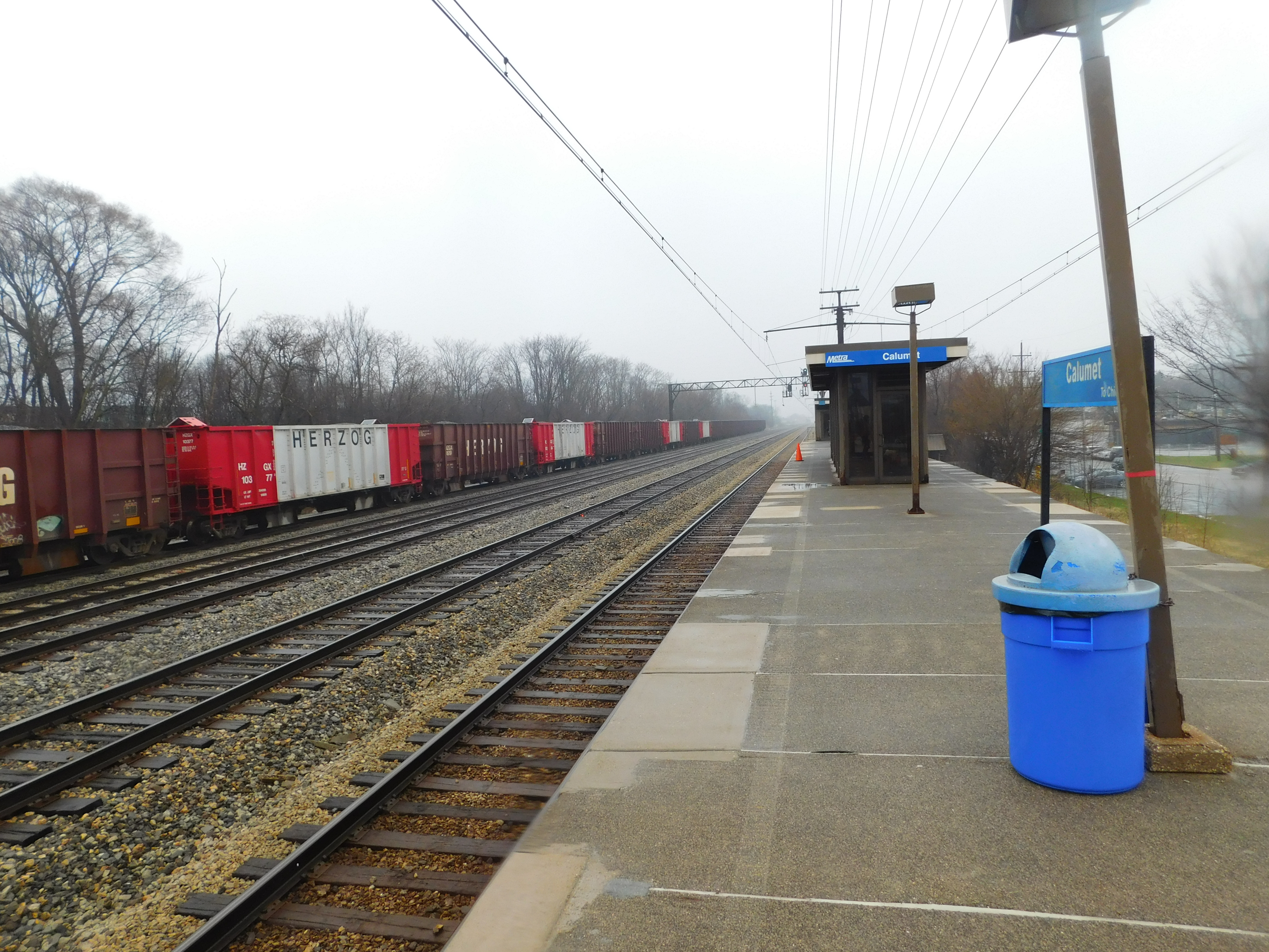 The Calumet station for Metra in March 2017.